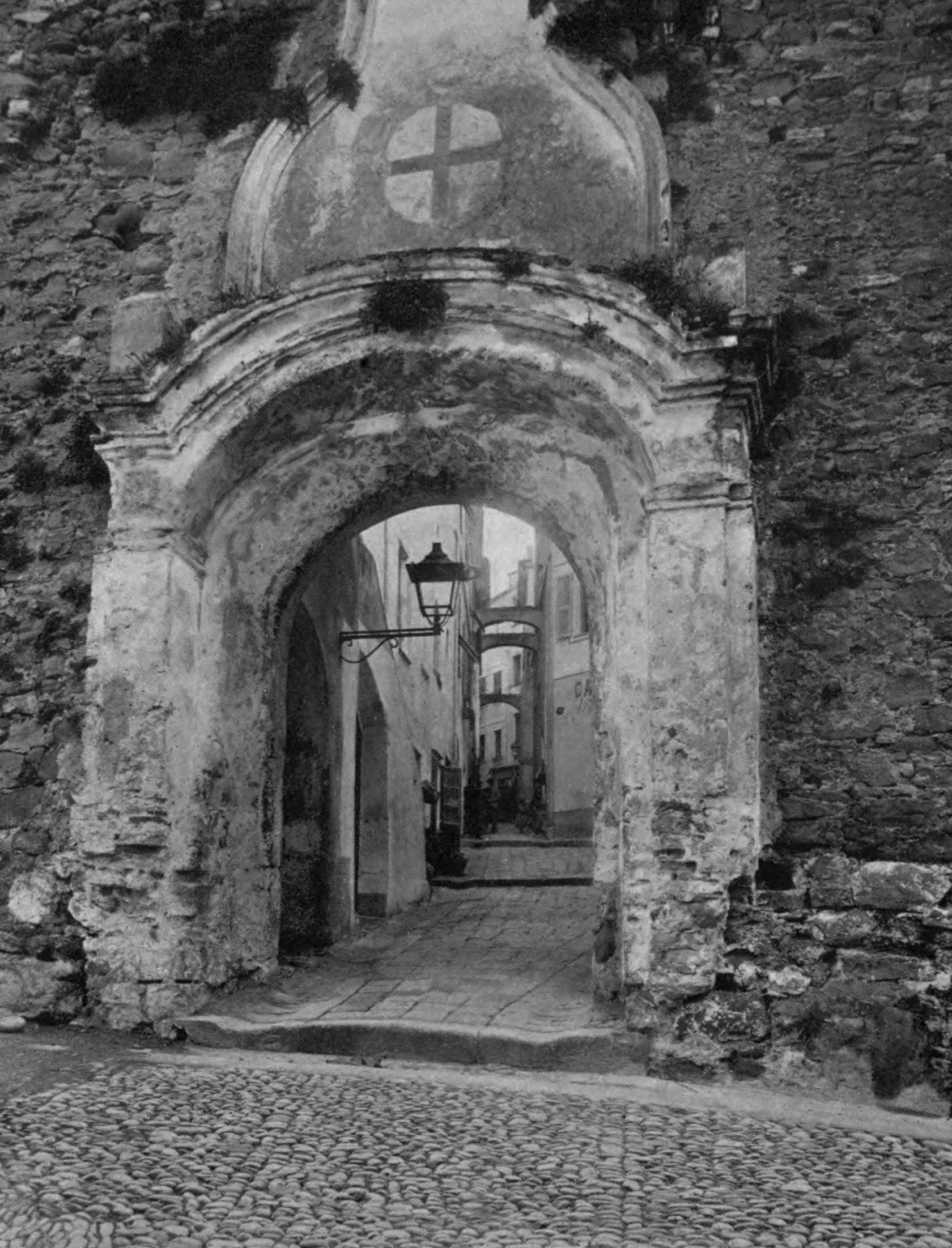 Image from a scanned version of the book "A Book of the Riviera" by Sabine Baring-Gould from Image has been cropped and sepia tone removed.